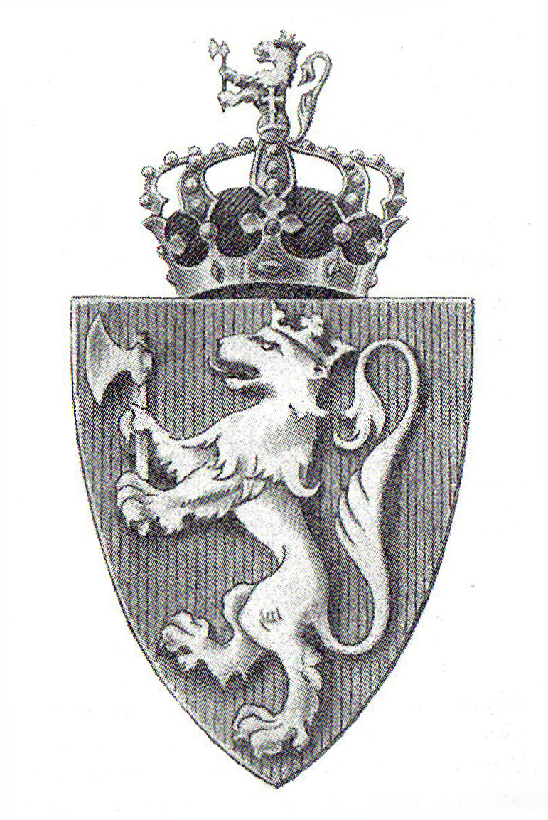 New design for the Norwegian coat of arms designed by painter Eilif Peterssen, approved for official use by Royal Resolution in Council 14 December 1905.